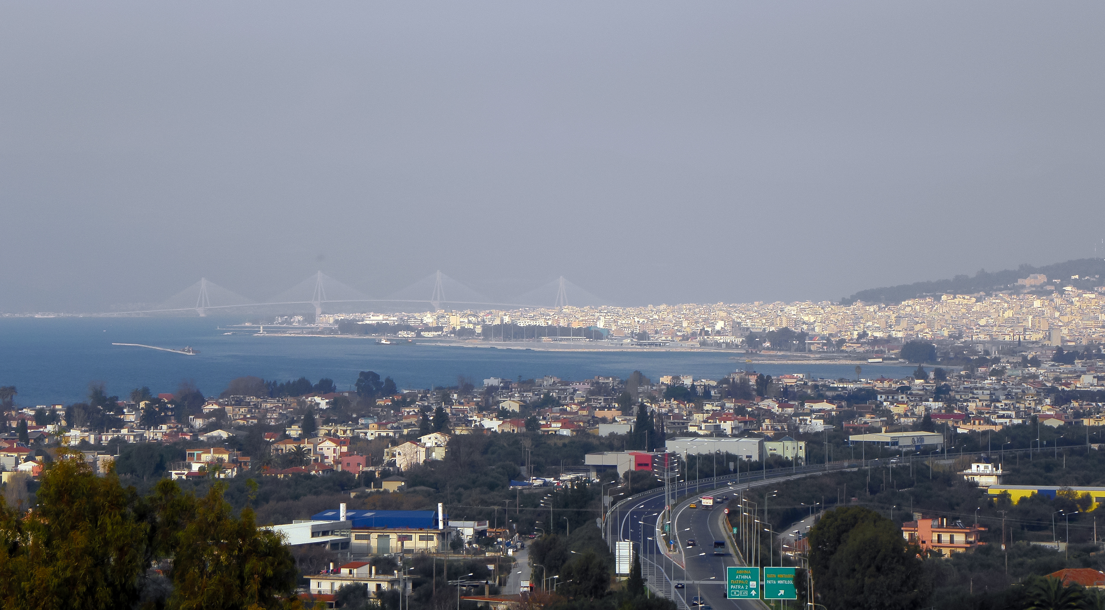 Patra, Peloponnese. City's SW entrance. Start/end of city's bypass